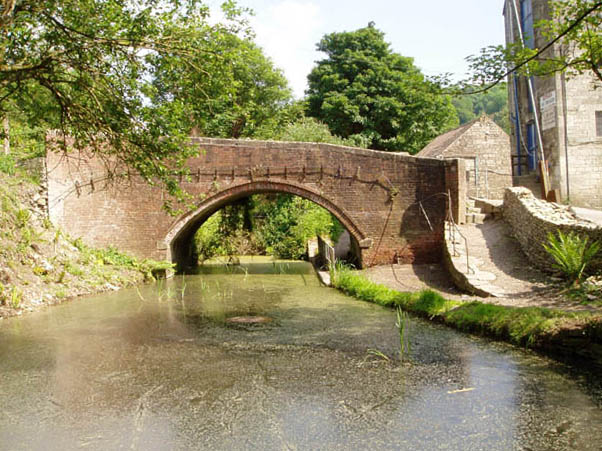 Bridge over the Thames and Severn Canal at Brimscombe, Gloucestershire, England.